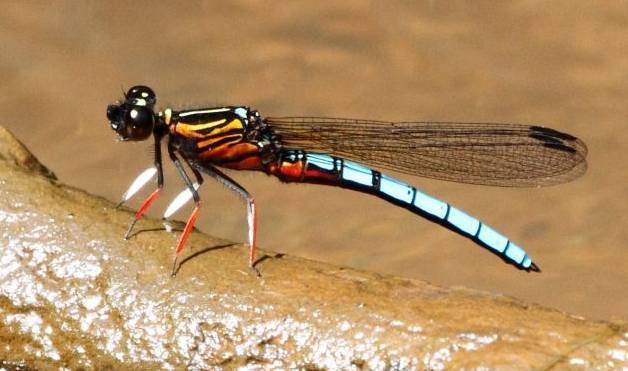 Male Dancing Jewel; KwaZulu-Natal